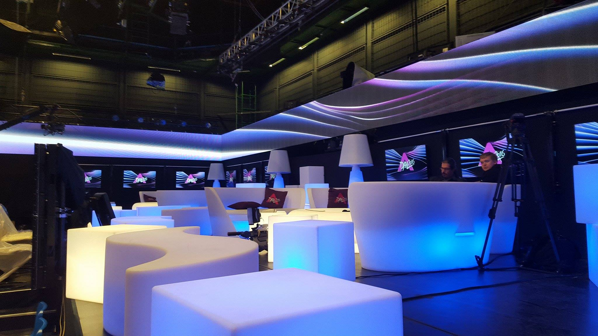 A Dal 2016 greenroom at MTVA headquarters in Budapest, District III